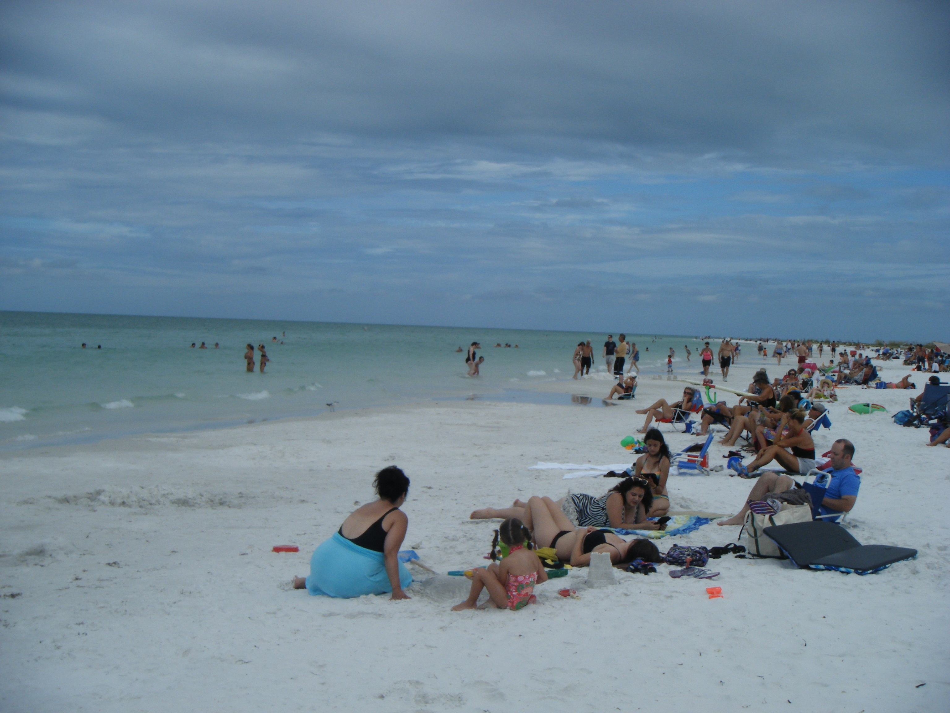 A view of Siesta Beach in Siesta Key, Florida looking north